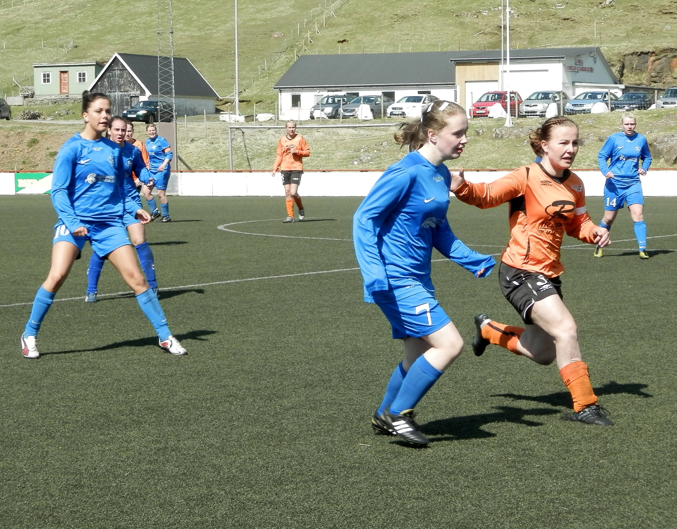 Football match in the women's best division in the Faroe Islands between FC Suðuroy and Skála. Skála won the match 4-1. Føroyskt: Fótbóltsdystur í bestu føroysku kvinnudeildini, 1. deild, millum FC Suðuroy og Skála. Dysturin varð leiktur 28. mai 2012 í Vági. Skála vann dystin 4-1.